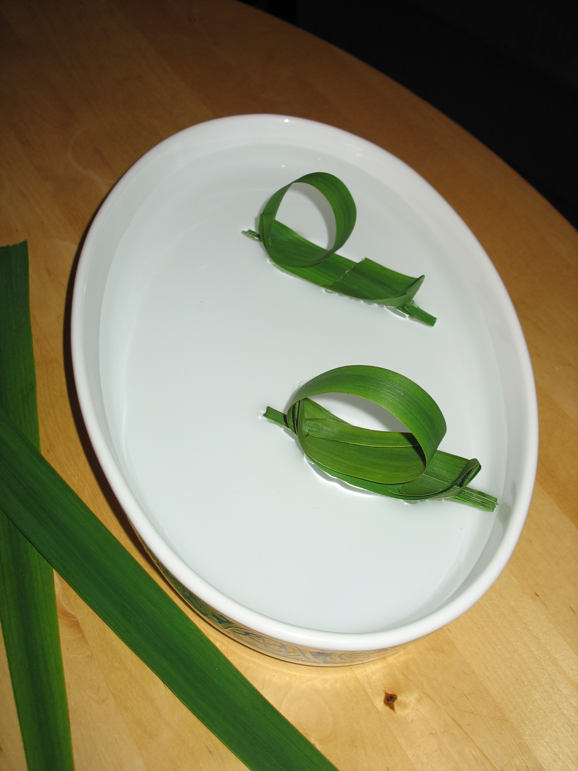 Round-sail type iris boats